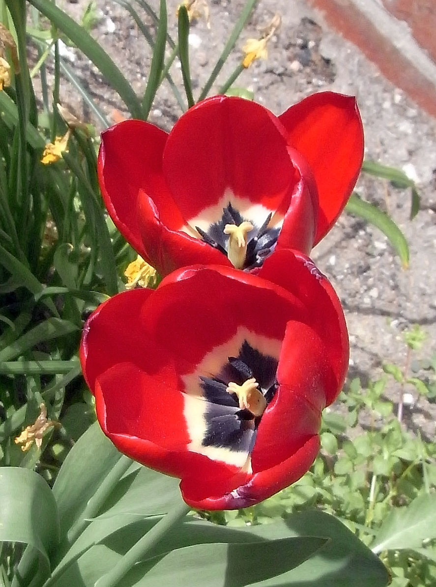 Tulipa Red